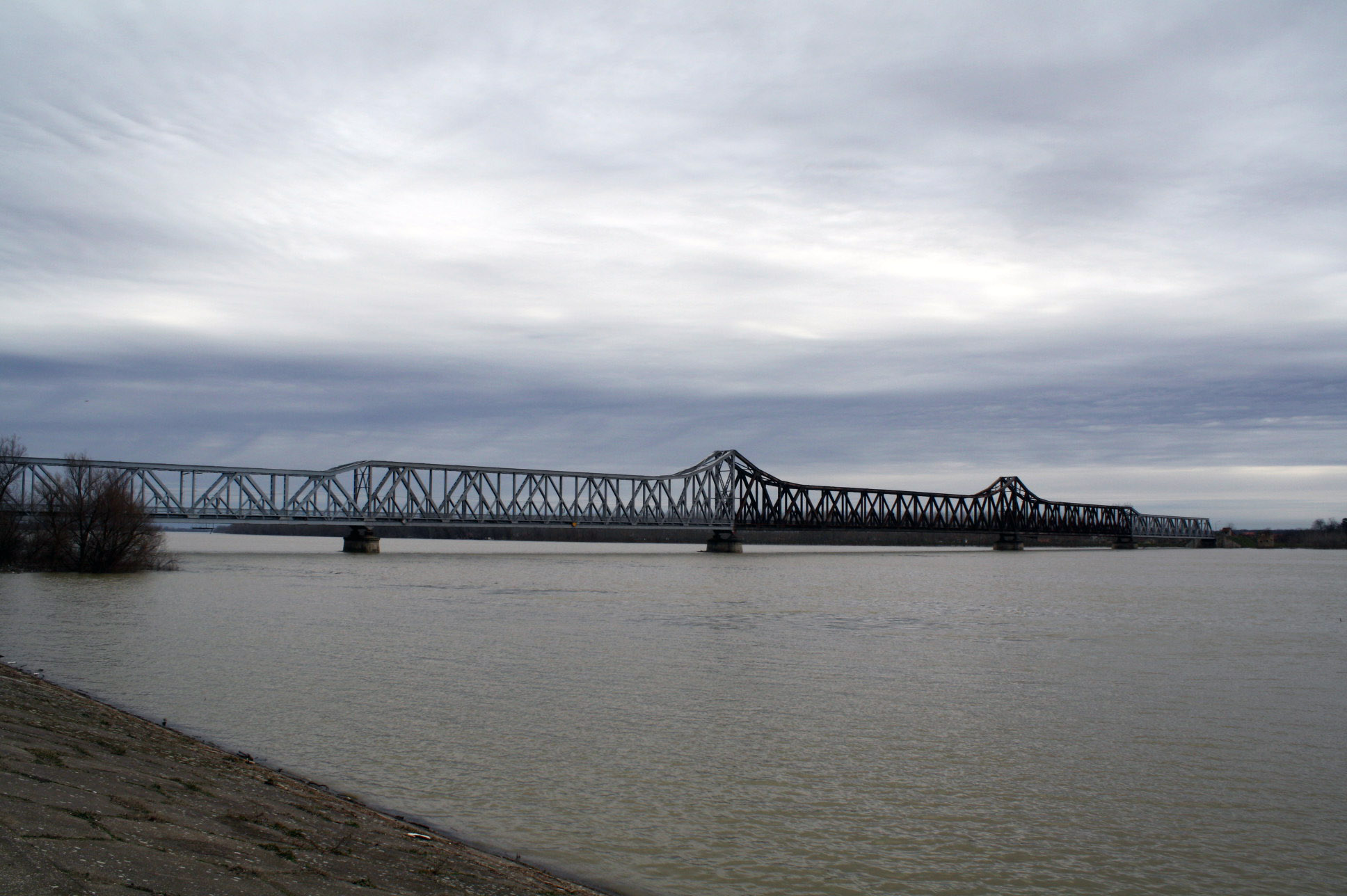 Old railway bridge in Šabac over the Sava river.